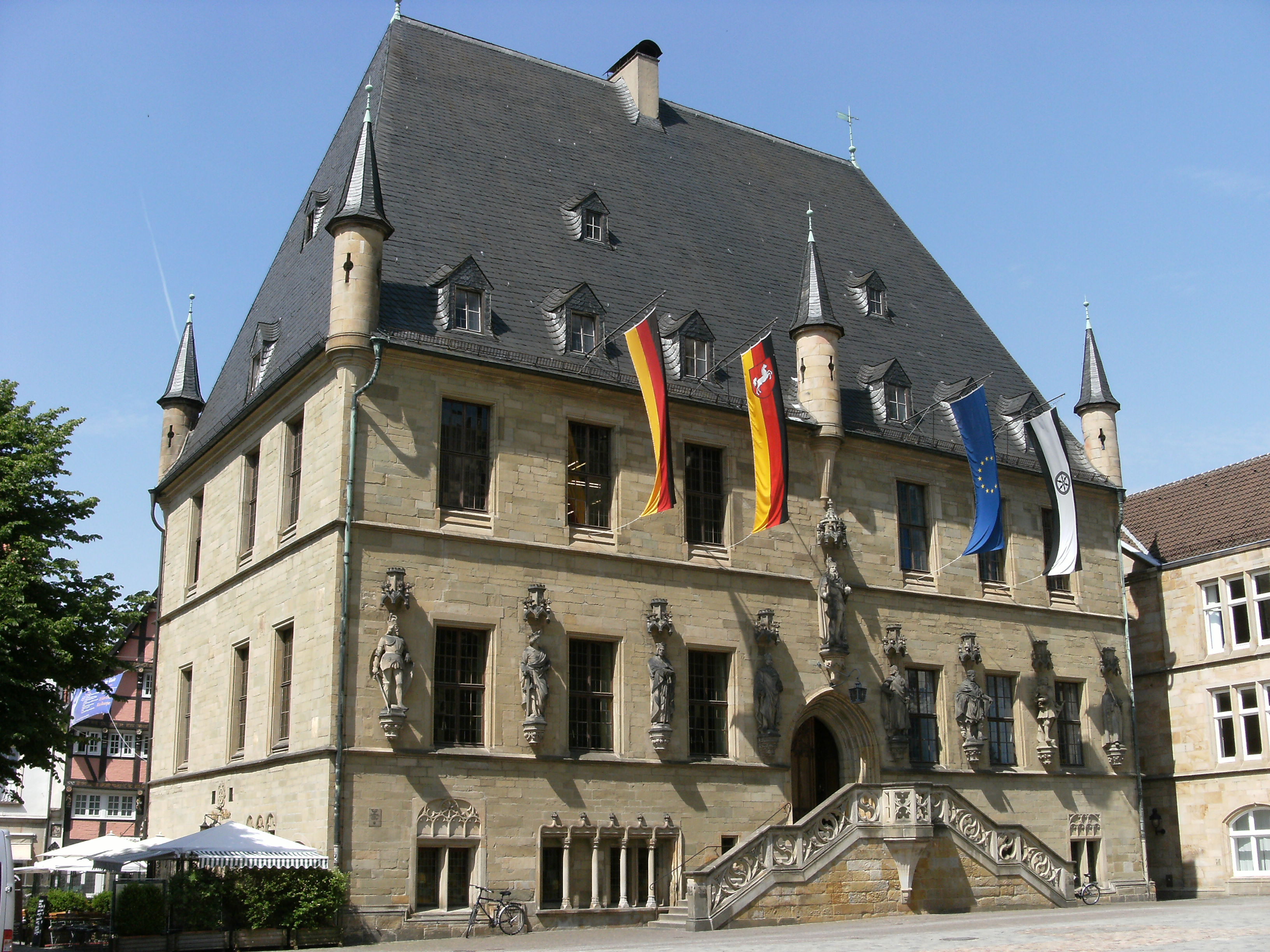 the historical town hall of Osnabrück